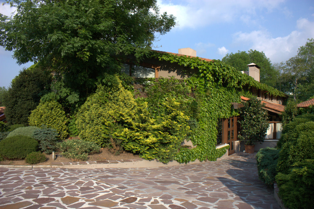 The front entrance of the restaurant Mugaritz.